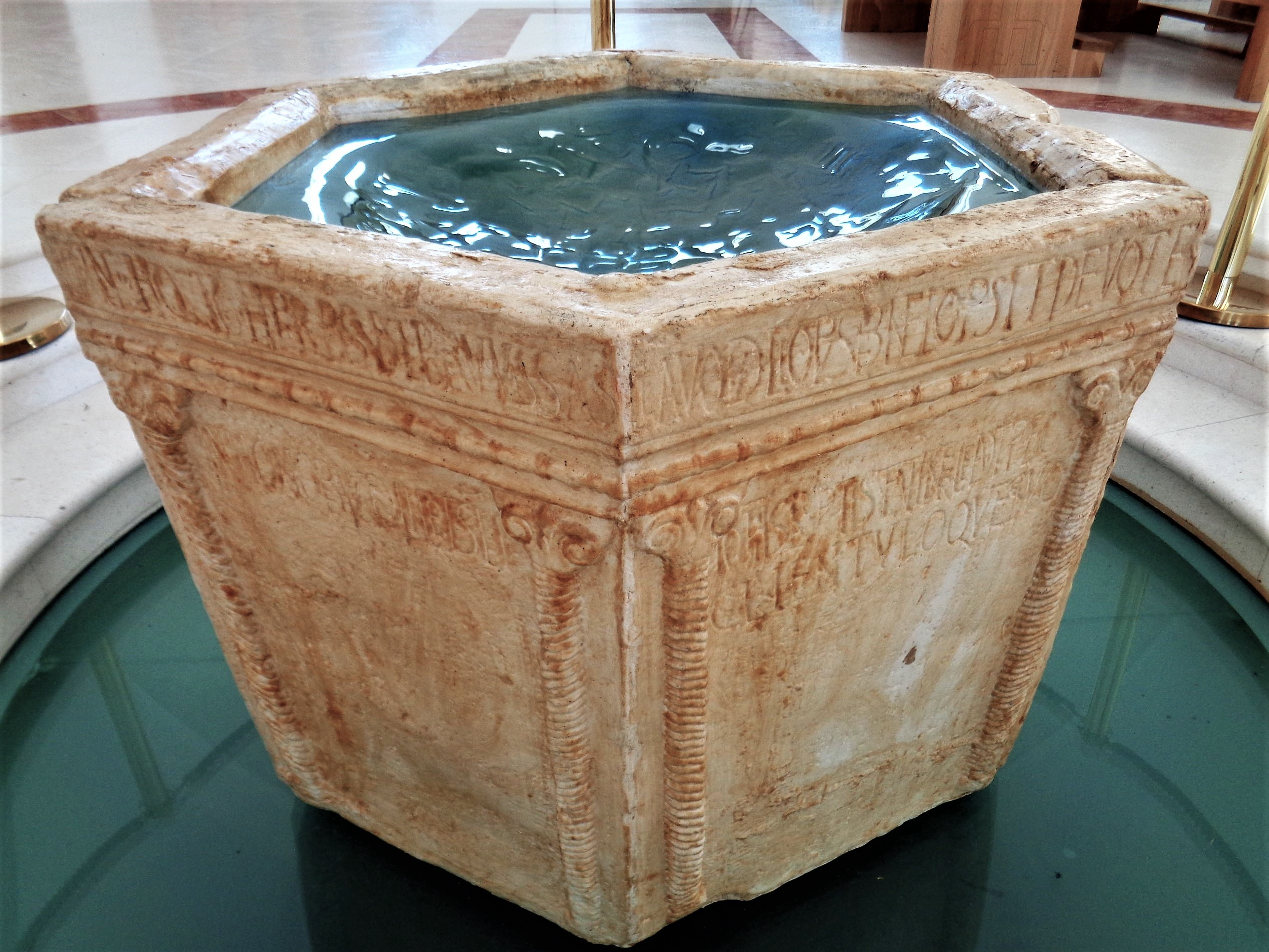 Church of Croatian Martyrs in Udbina, Lika-Senj County, Croatia - replica of the baptismal font of Duke Višeslav of Croatia (8th century) - close-up